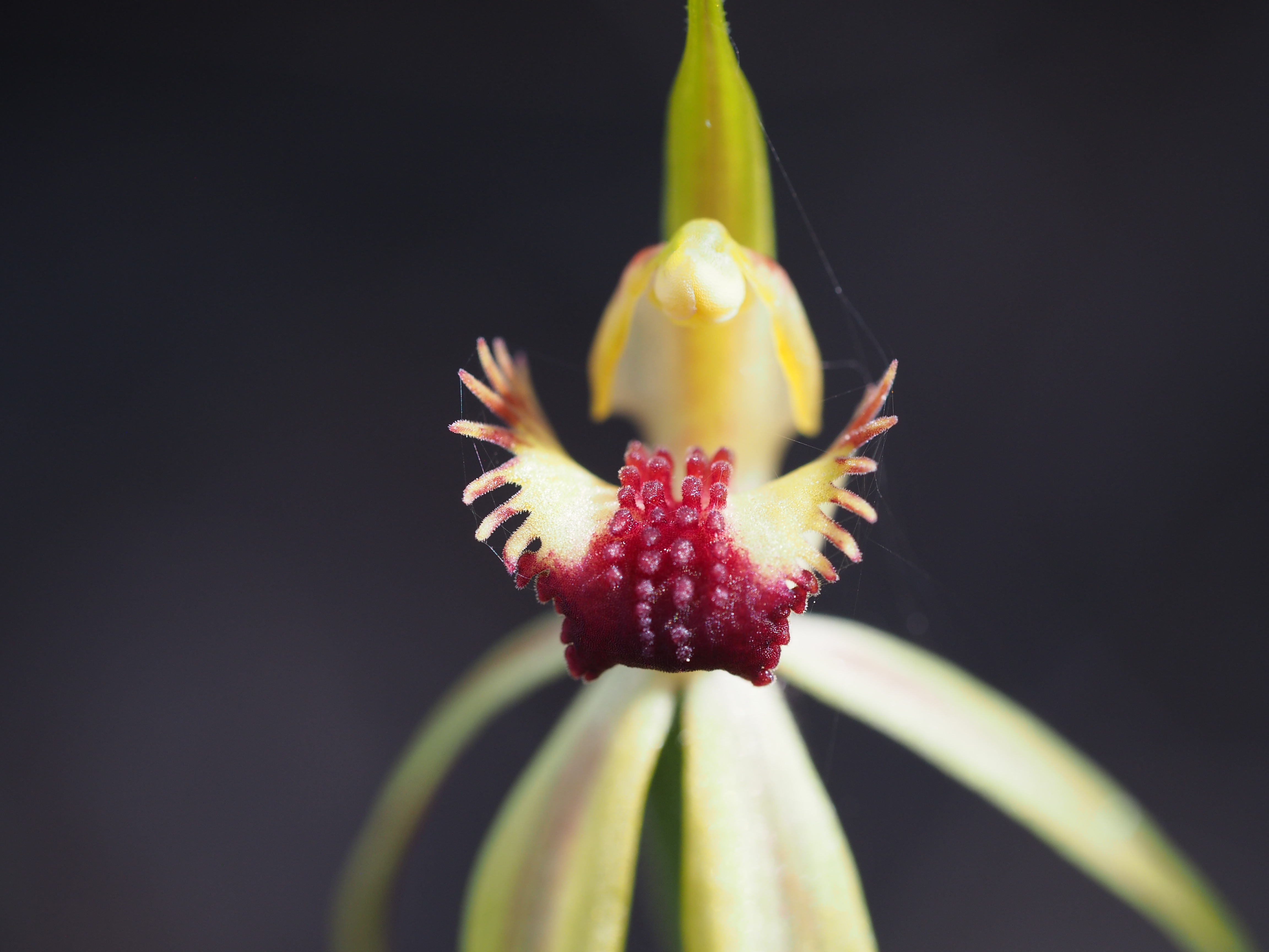 Caladenia longiclavata growing near Williams, Western Australia